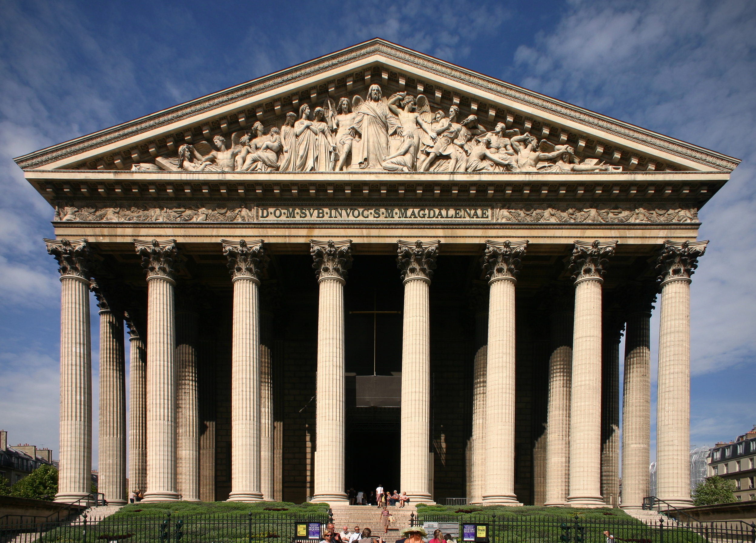 The Église de la Madeleine, Paris, France.